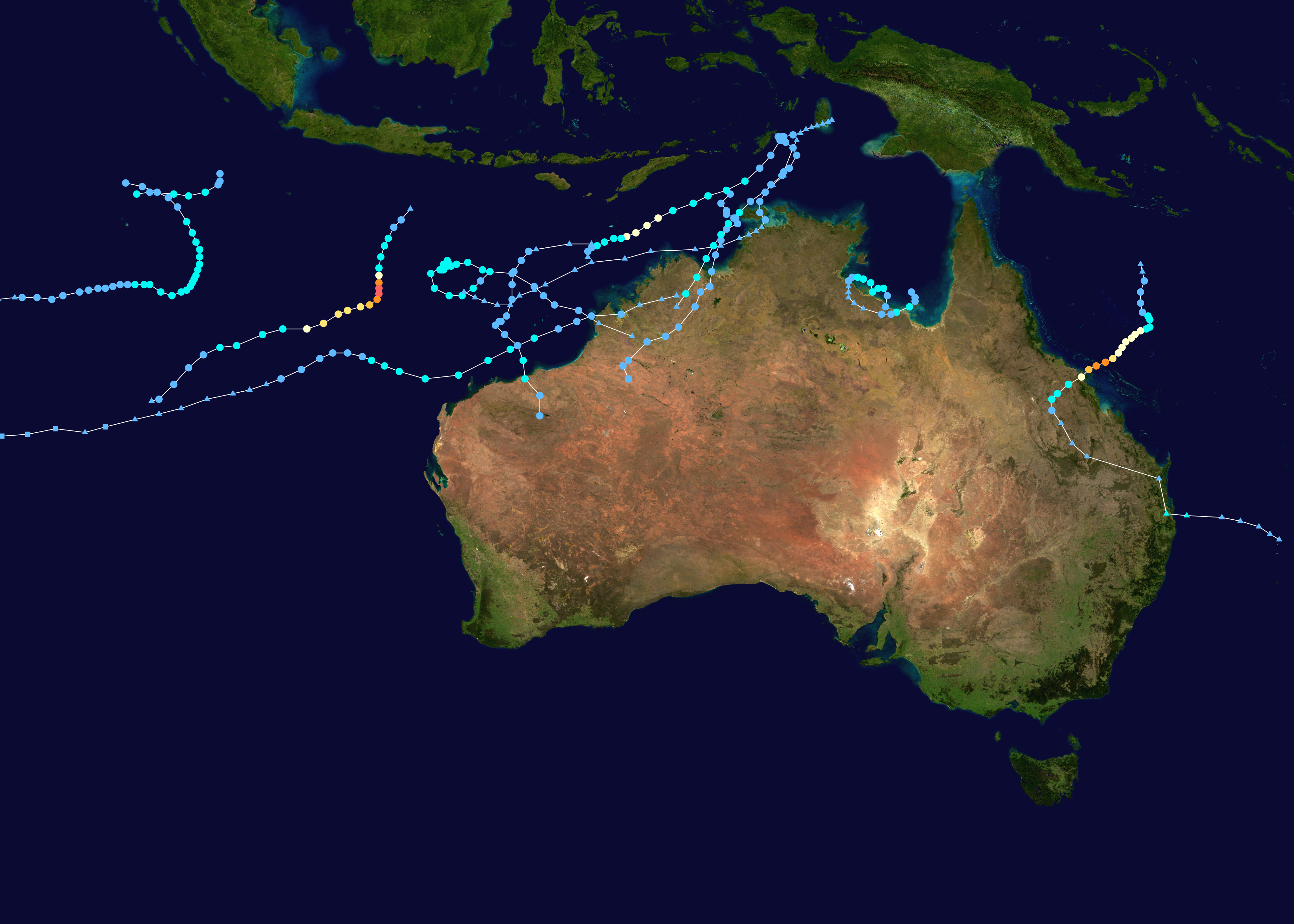 This map shows the tracks of all tropical cyclones in the 2016-17 Australian region cyclone season. The points show the location of each storm at 6-hour intervals. The colour represents the storm's maximum sustained wind speeds as classified in the Saffir-Simpson Hurricane Scale (see below), and the shape of the data points represent the type of the storm. Saffir–Simpson scale Tropical depression≤38 mph≤62 km/h Category 3111–129 mph178–208 km/h Tropical storm39–73 mph63–118 km/h Category 4130–156 mph209–251 km/h Category 174–95 mph119–153 km/h Category 5≥157 mph≥252 km/h Category 296–110 mph154–177 km/h Unknown Storm type Tropical cyclone Subtropical cyclone Extratropical cyclone / Remnant low / Tropical disturbance / Monsoon depression